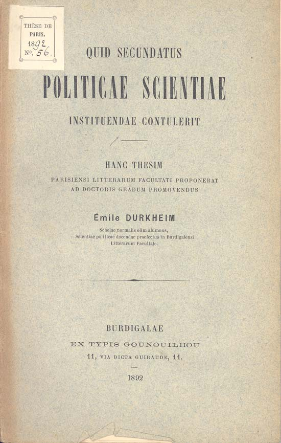 Emile Durkheim: Quid Secundatus politicae scientiae instituendae contuleri. Dissertation, Paris 1892